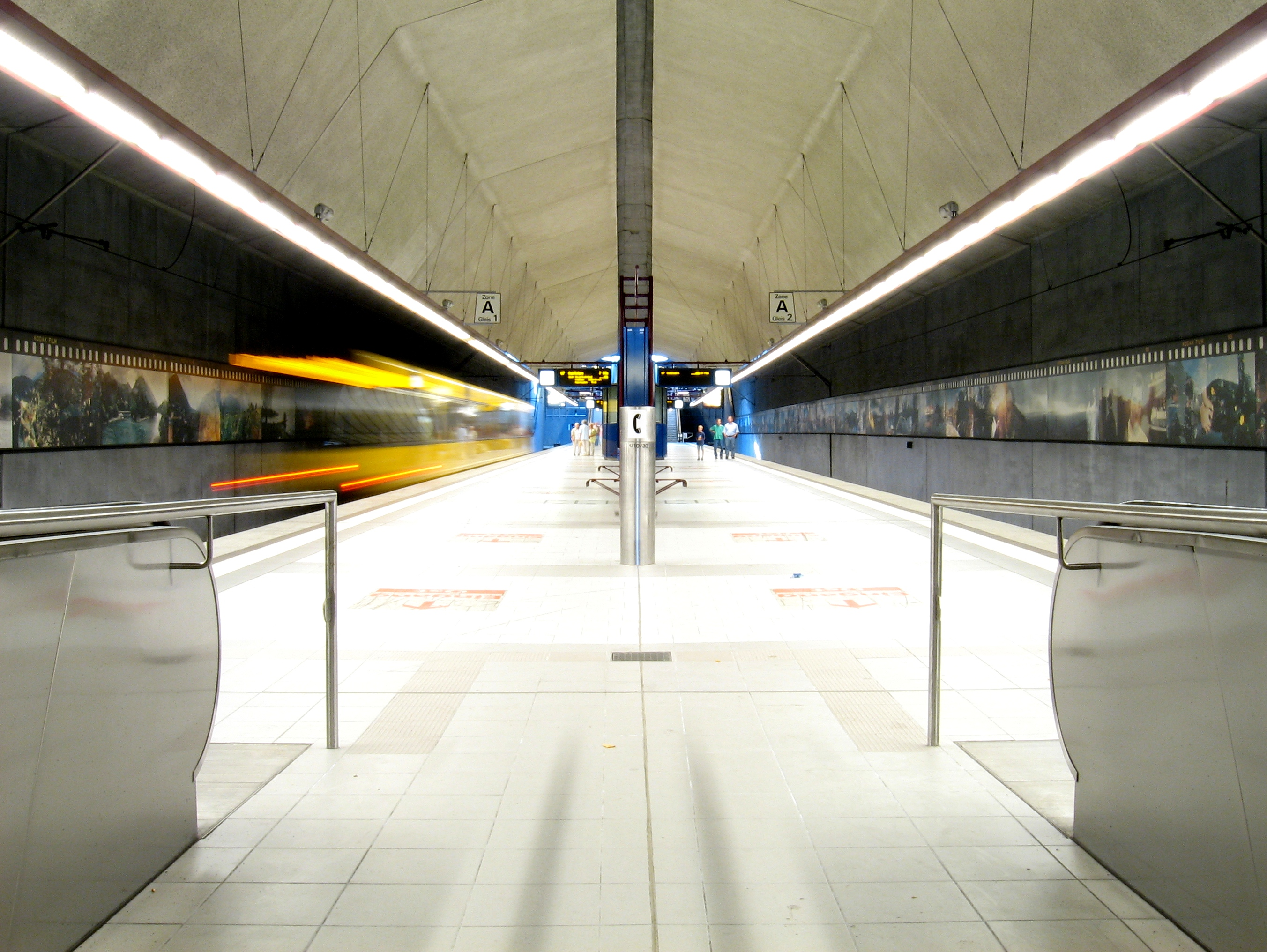 Killesberg subway station in Stuttgart